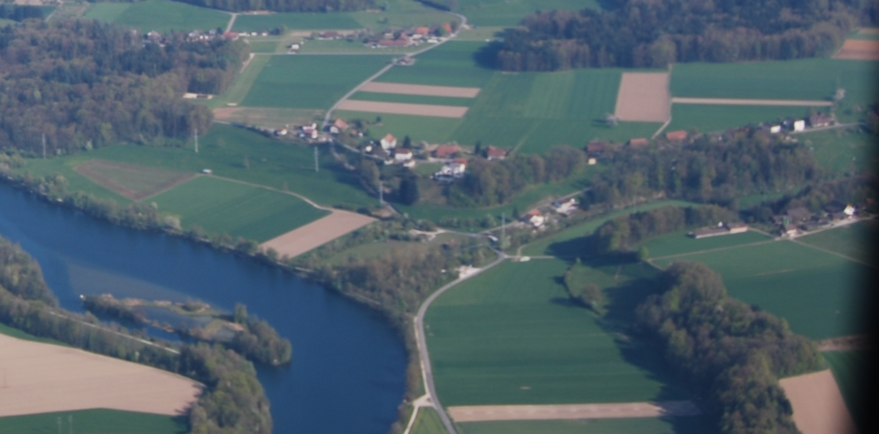 Graben and the island Vogelroupfi, canton of Bern, Switzerland